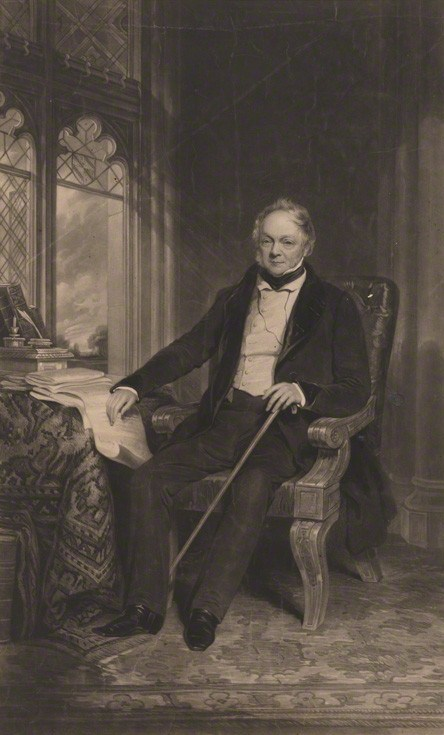 Portrait of William Joseph Denison (1770–1849), English banker and politician.